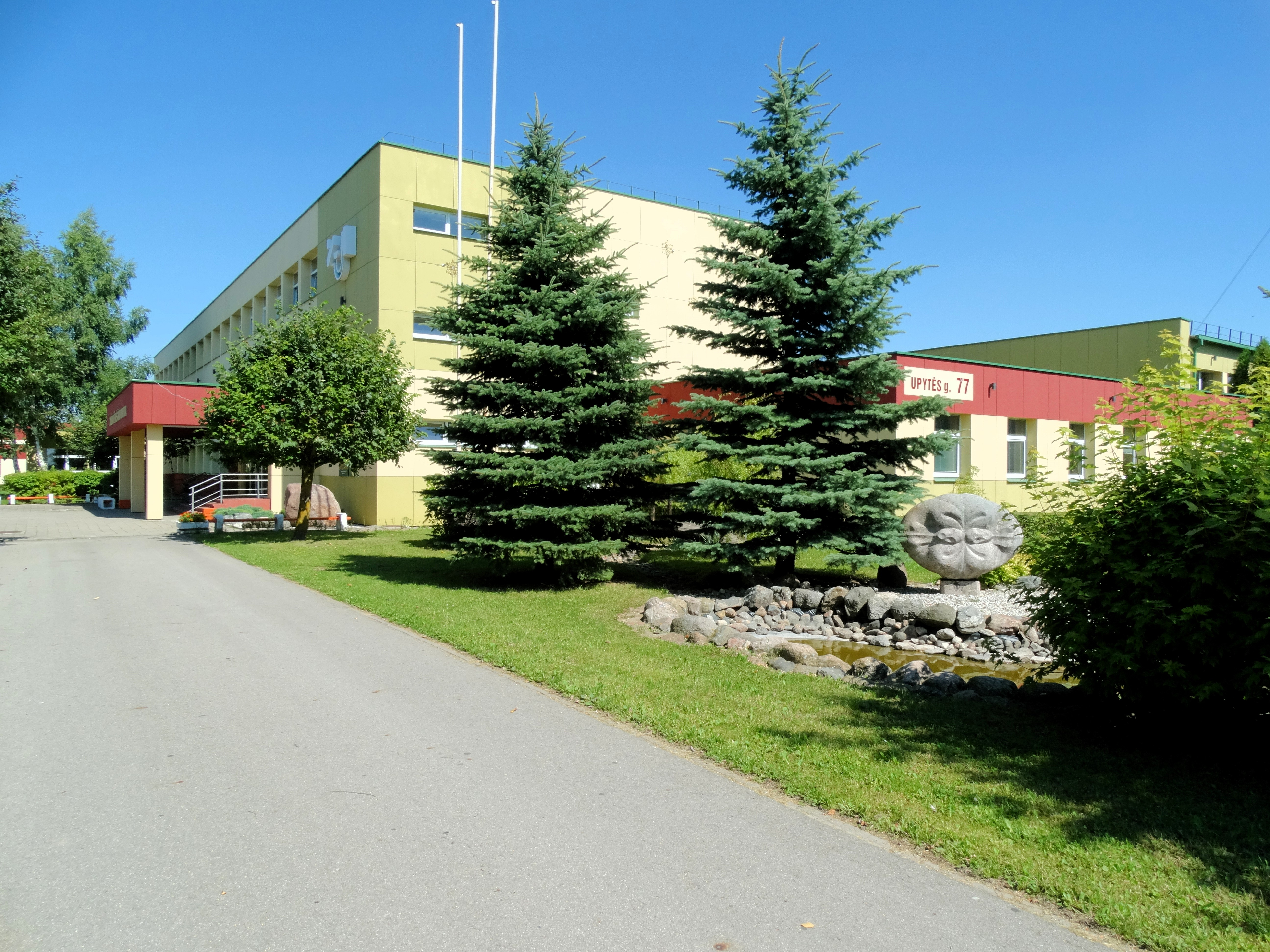 Joniškis Agricultural School, Lithuania